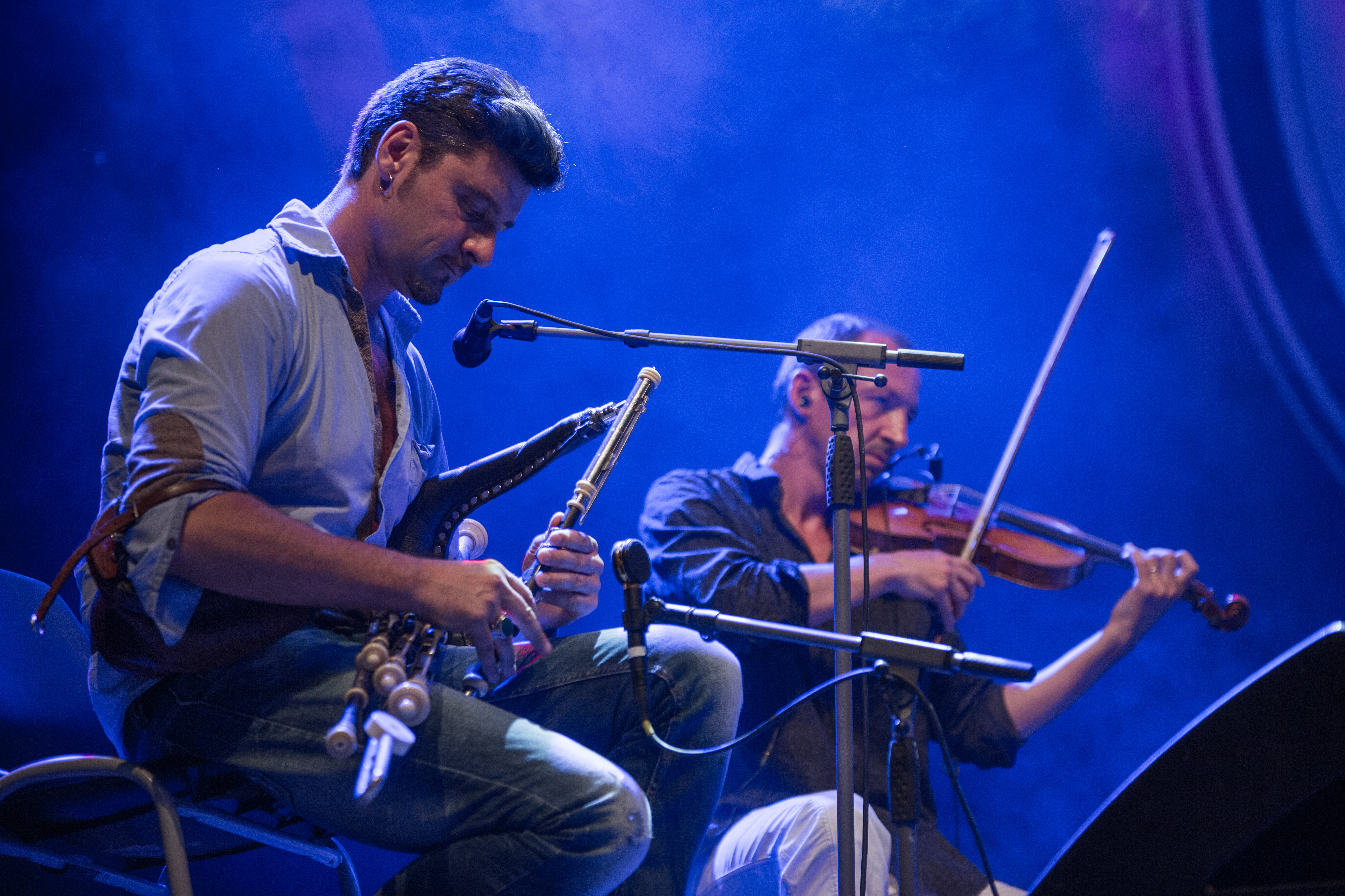 Celtic Social Club TTF.Rudolstadt 2015 Festivalsommer This photo was created with the support of donations to Wikimedia Deutschland in the context of the CPB project "Festival Summer".